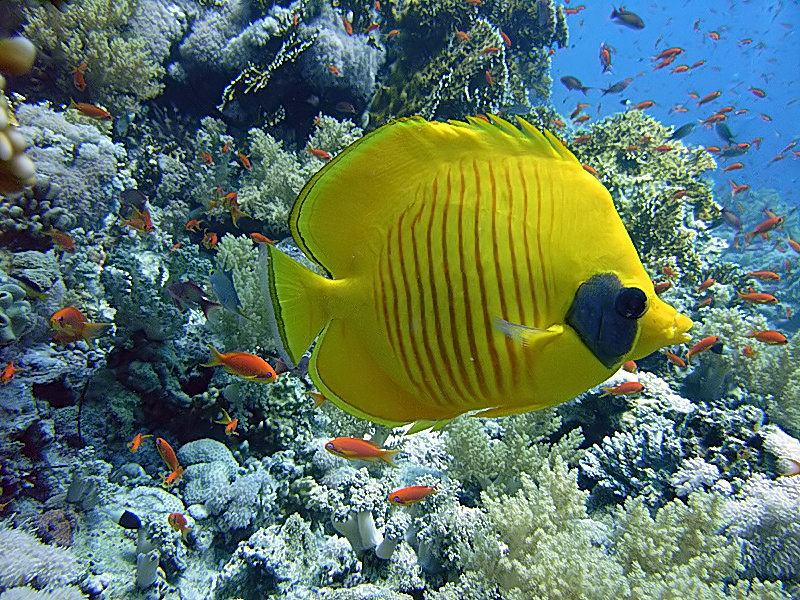 Bluecheek butterflyfish, Jackson Reef, Straits of Tiran, Egypt